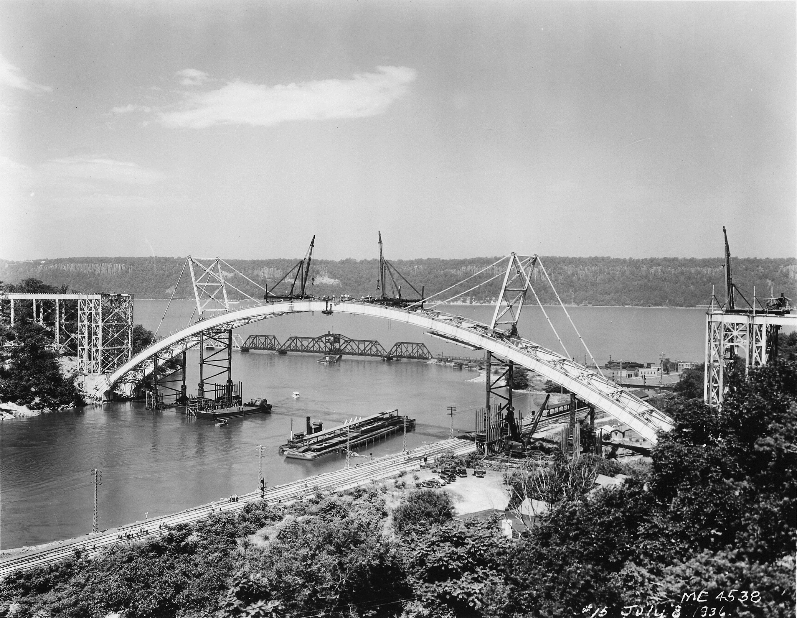 Looking from the Bronx, the final crown piece is placed at the center of the plate-girder, steel arch of the Henry Hudson Bridge. New York Central Railroad (NYCRR) tracks (now Metro-North) beneath the arch continued operating during construction. In the distance is the Spuyten Duyvil Bridge, built by the NYCRR in 1900, and which has been used by Amtrak since 1991.